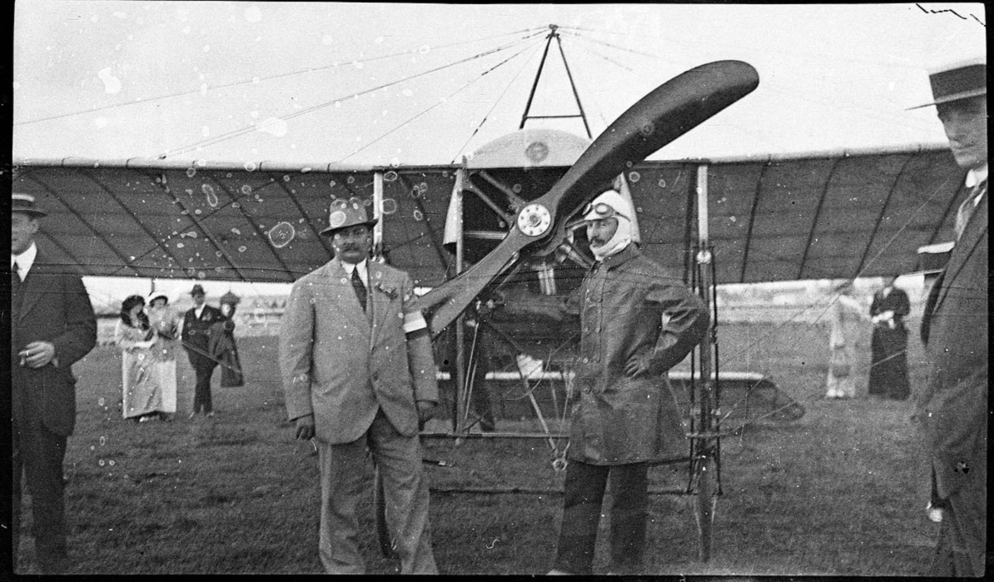 Maurice Guillaux and his Bleriot XI monoplane after the first mail and cargo flight Melbourne-Sydney. 1914-07-18 (Mitchell REF1/Q629.1300994/2)